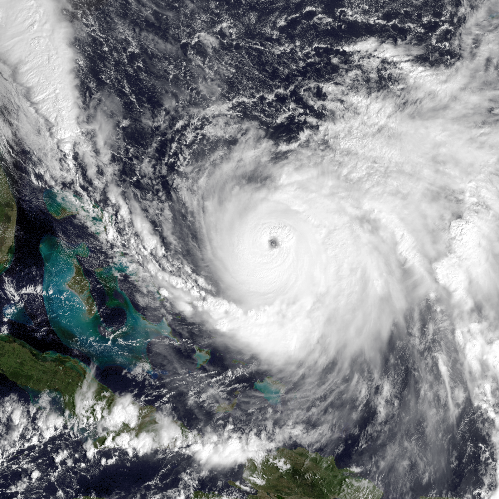 Visible satellite imagery of Hurricane Joaquin at the time of its peak winds on October 3, 2015.